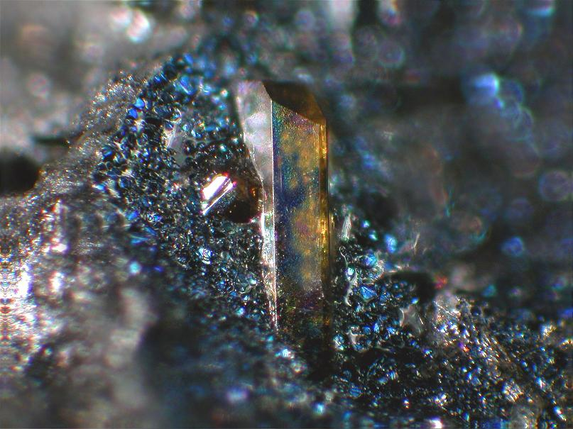 Forsterite, multicolored (image width: 1.5 mm) - Locality: Wannenköpfe, Ochtendung, Eifel region, Germany